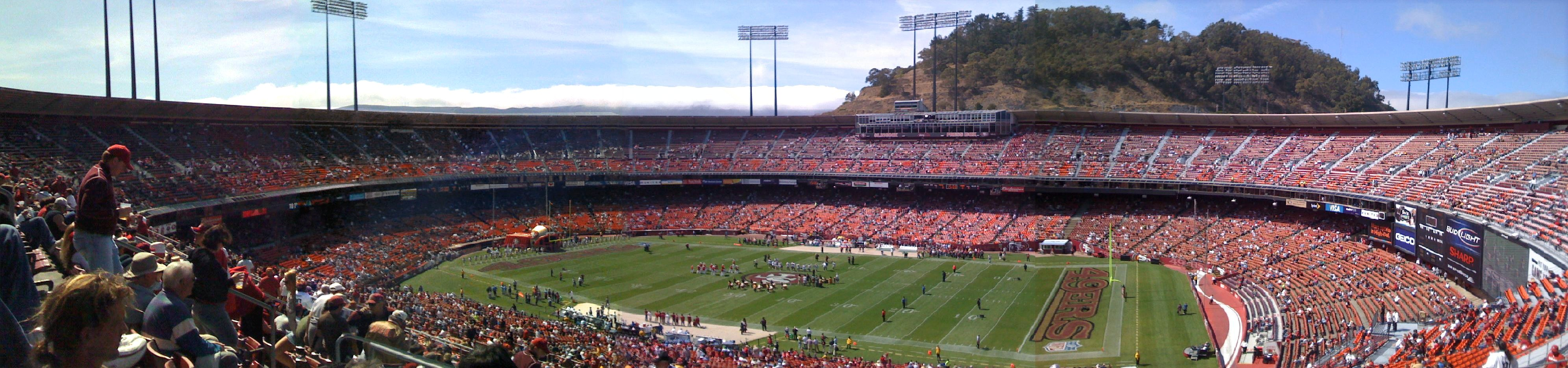 Panorama of Candlestick Park